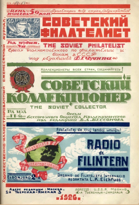 Russian philatelic magazine "Soviet Philatelist - Soviet Collector - Radio de Filintern", 1926.